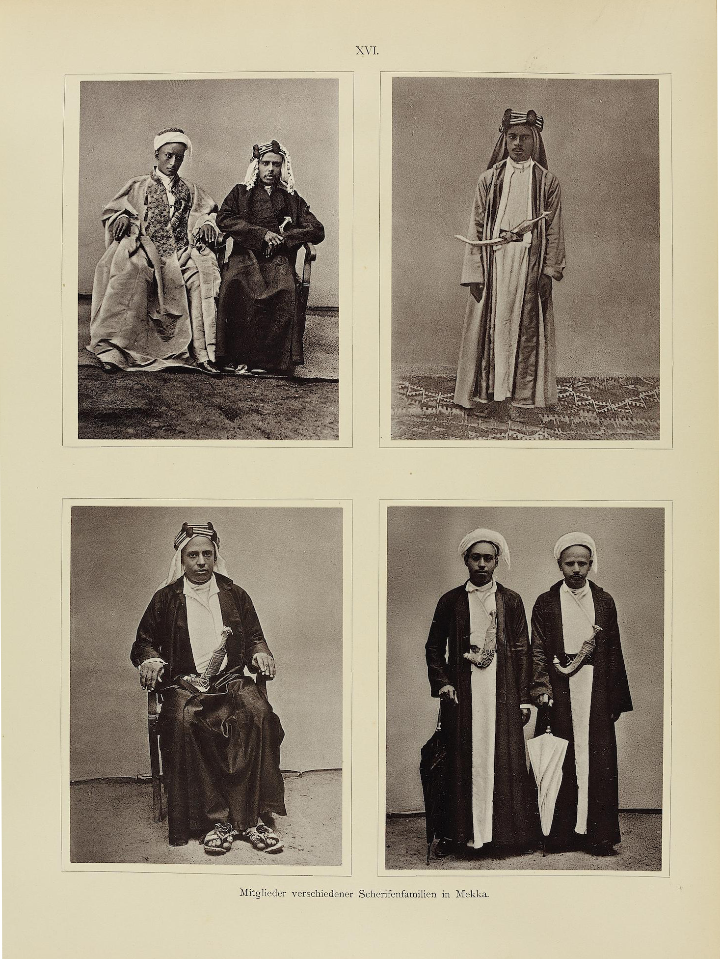 Members of different Sharifi families in Mecca in the 1880s